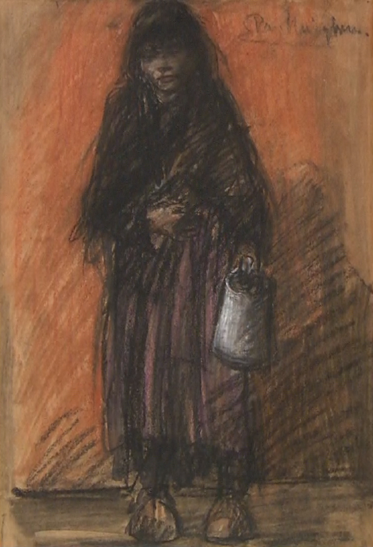 Het Soepmeisje model: zijn vrouw, Augustine Pautre signatuur r.b.